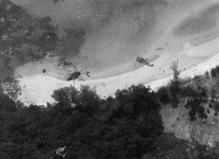 An OV-10 flys over two helicopters shot down on the East Beach of Koh Tang Island